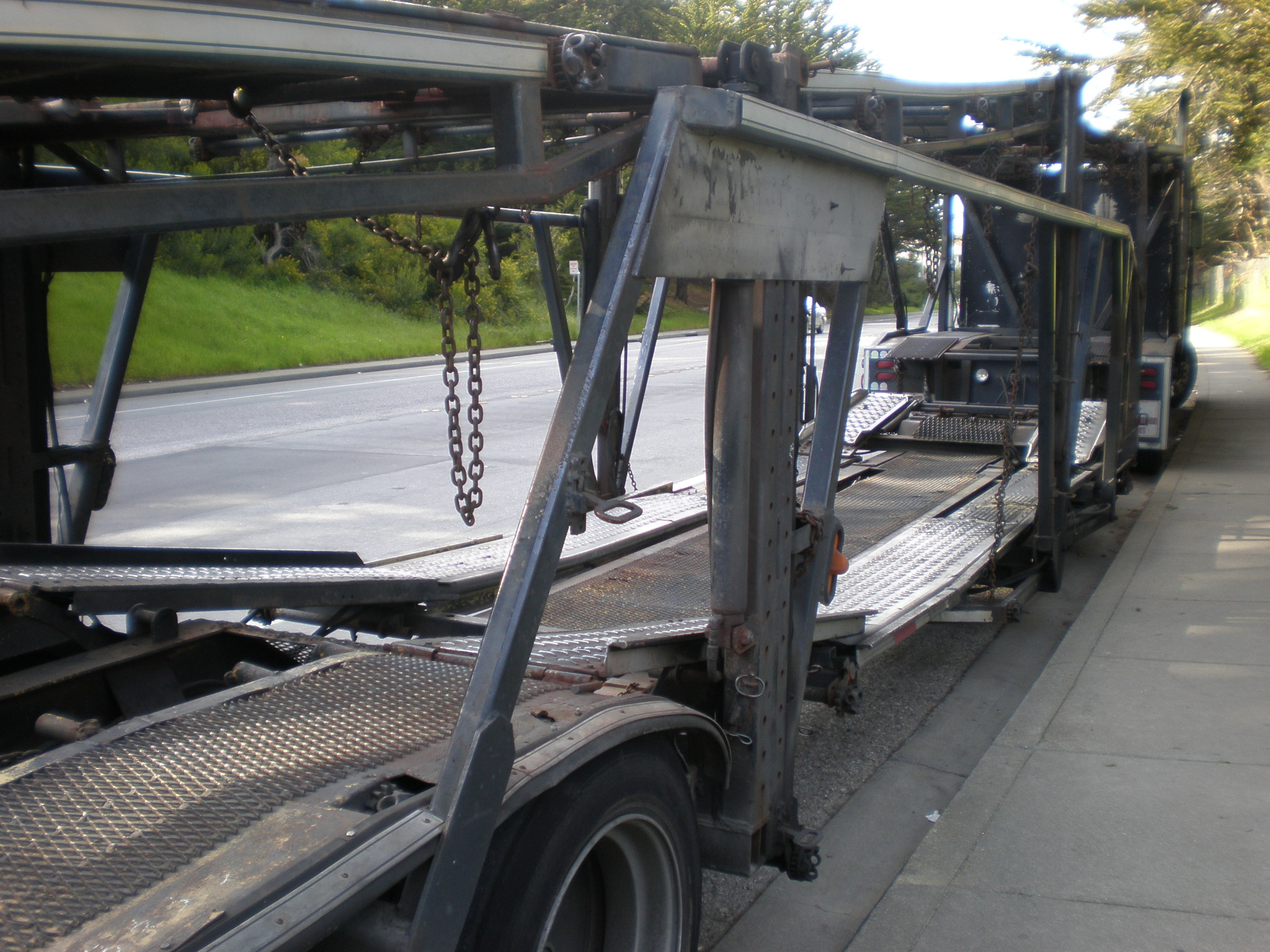 A portion of the trailer of an International Eagle car carrying trailer.